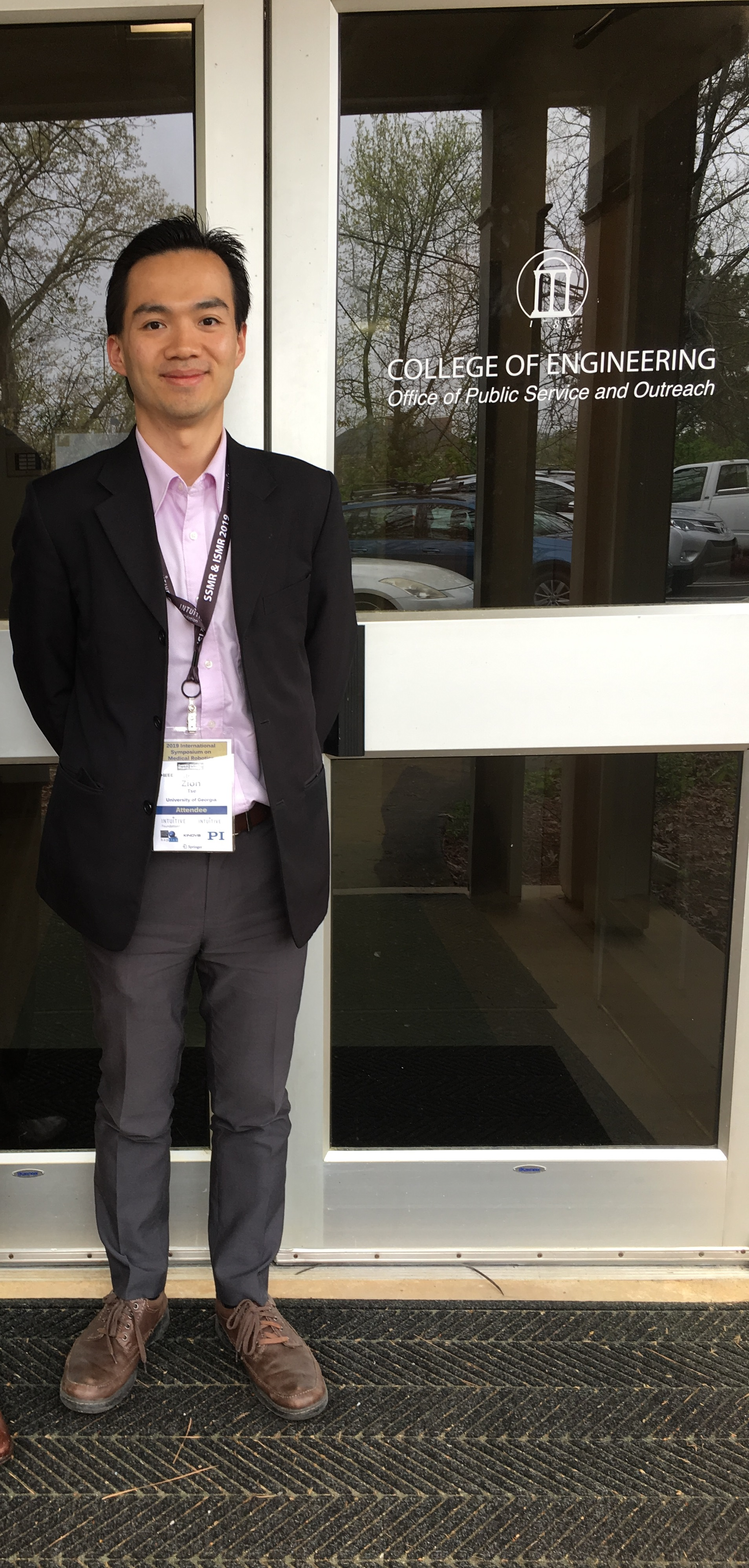 Profile